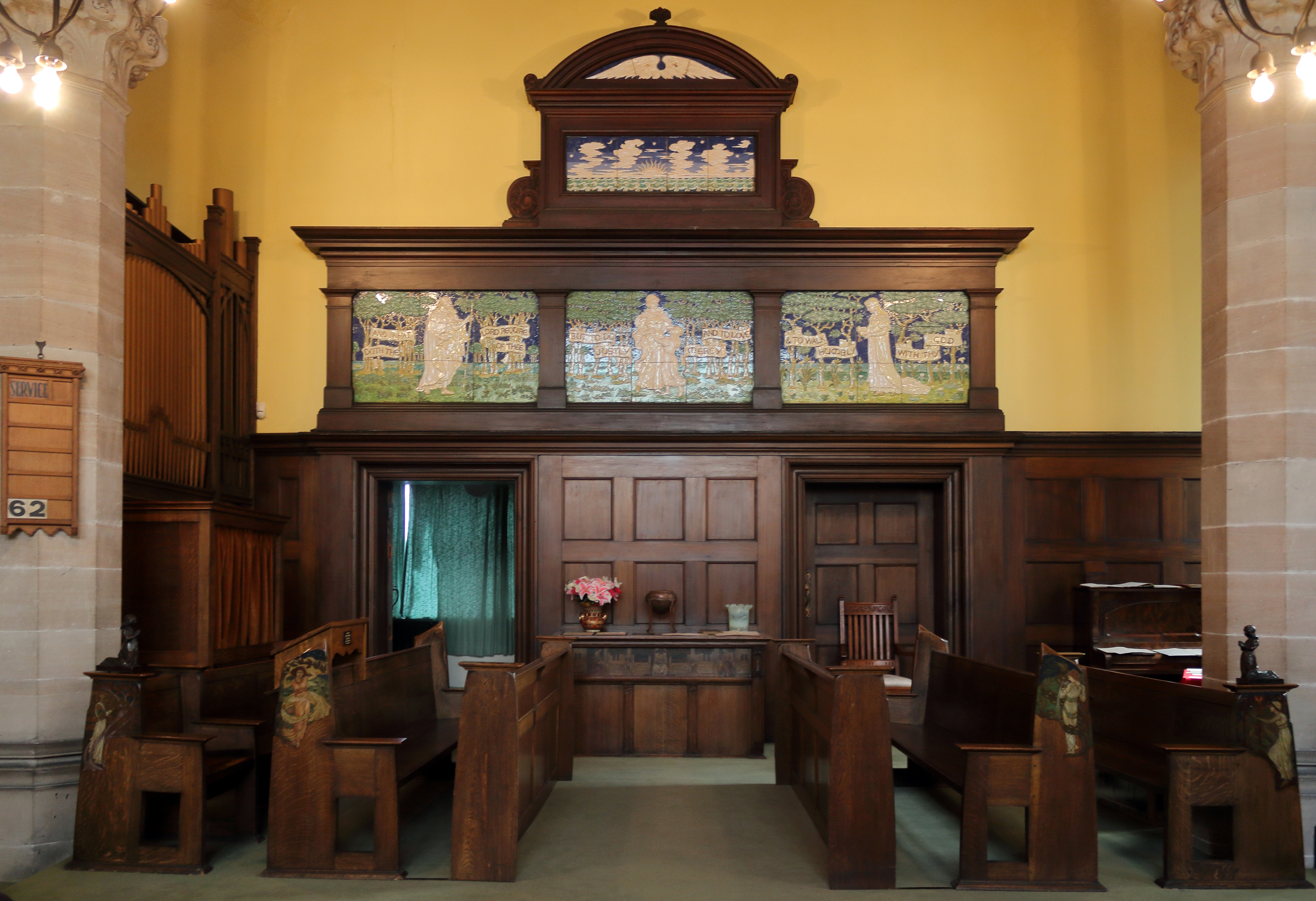 Choir stalls and communion table in Arts & Crafts Movement style, with Della Robbia panels above.